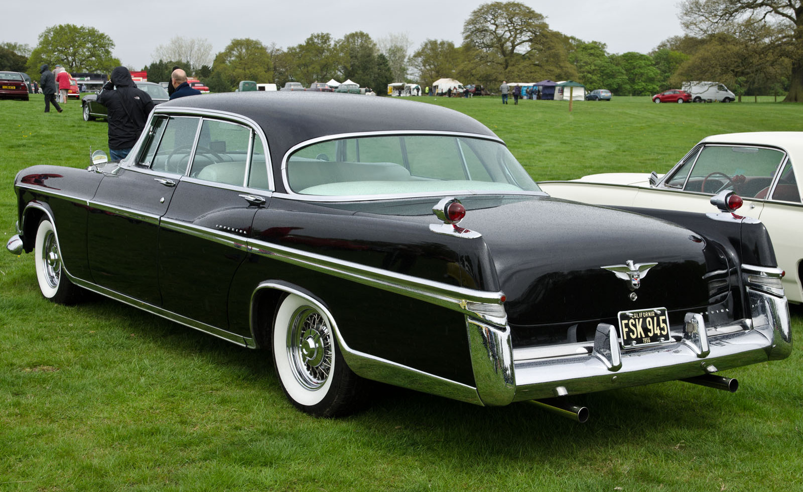 Vale Royal Classic Car Show at Arley Hall 12/05/2013